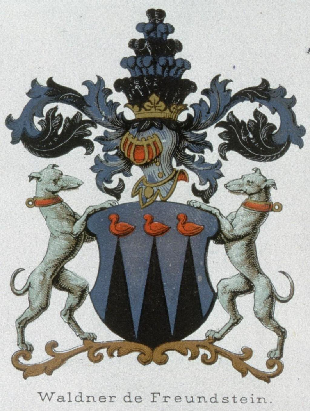 Coats of arms of Waldner de Freundstein